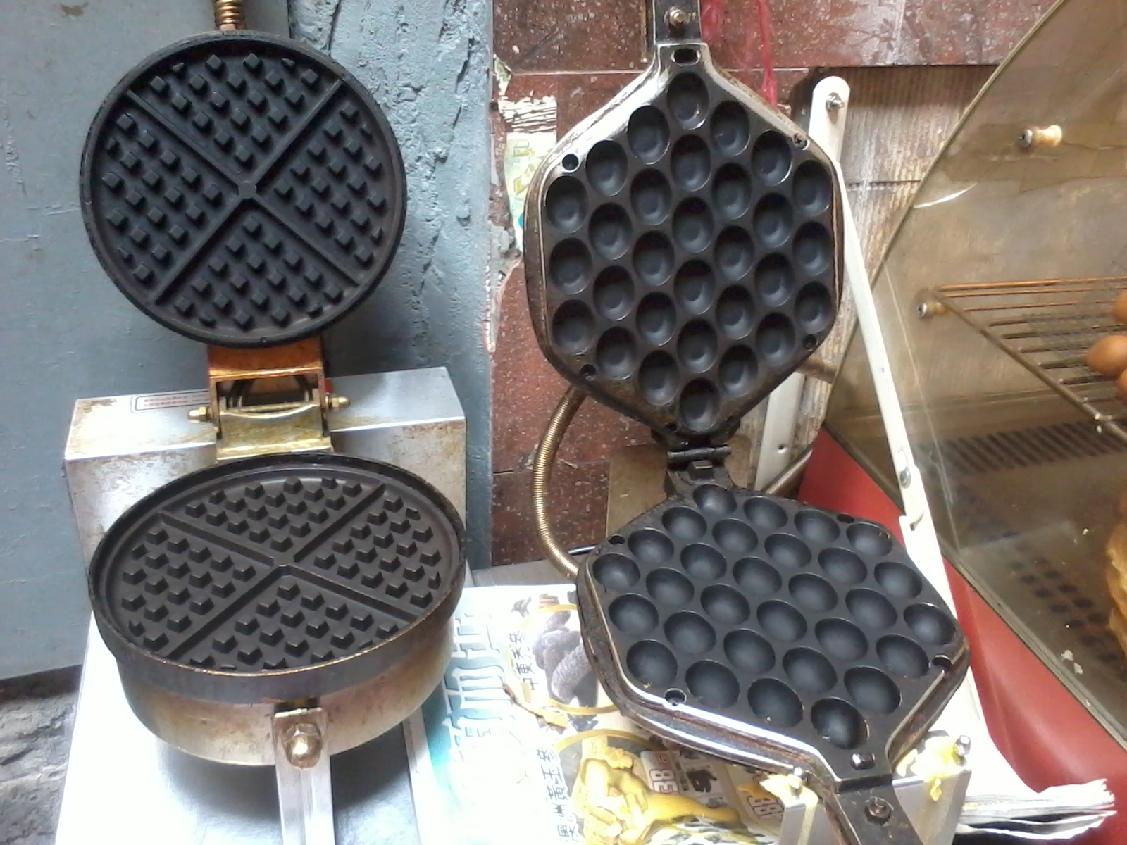 雞蛋仔, Bubble Waffle tools at a food shop in 上環安泰街, On Tai Street, Sheung Wan, Hong Kong